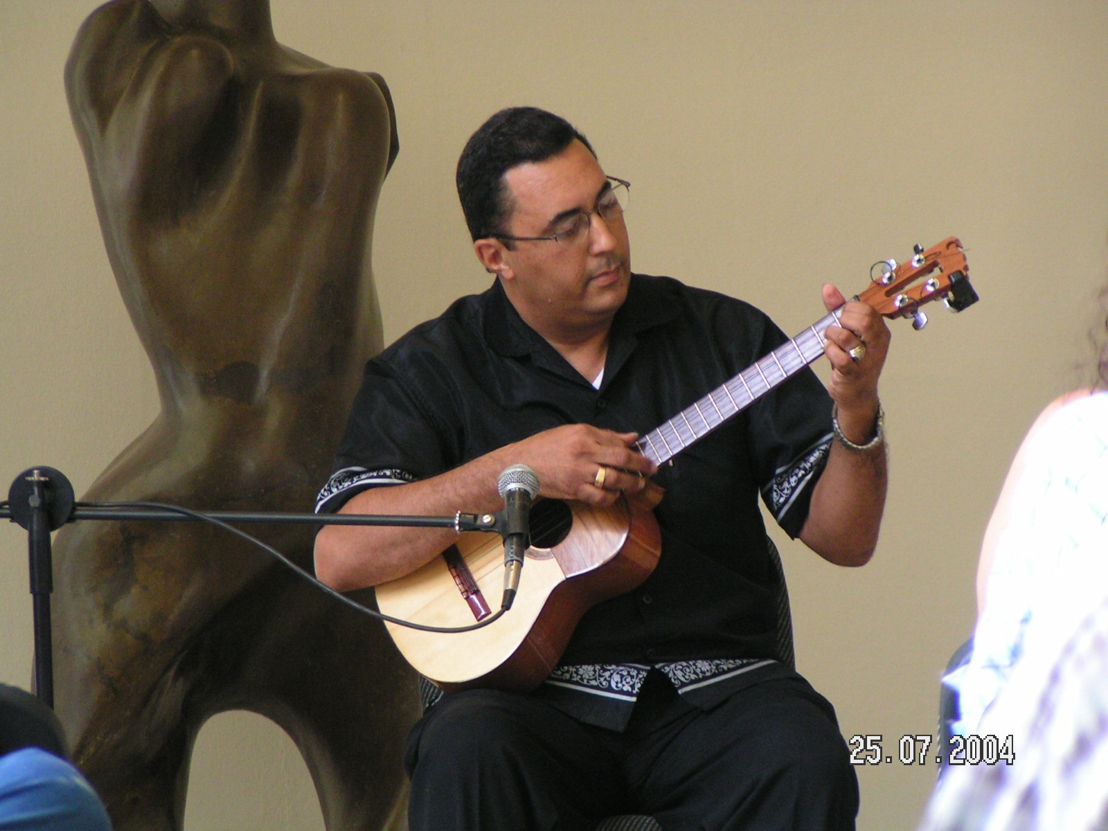 Public live performance, museum of modern art, Caracas, Venezuela